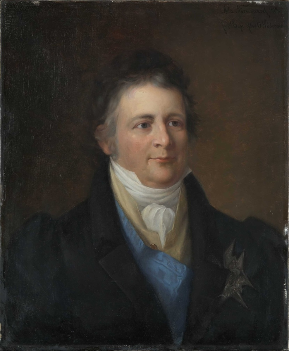 Herman Wedel-Jarlsberg painted by Asta Nørregaard in 1914. Copy from an original by Olof Johan Södermark. Signed at top right: Asta Nørregaard/1914/fri copi efter O. Sødermarck